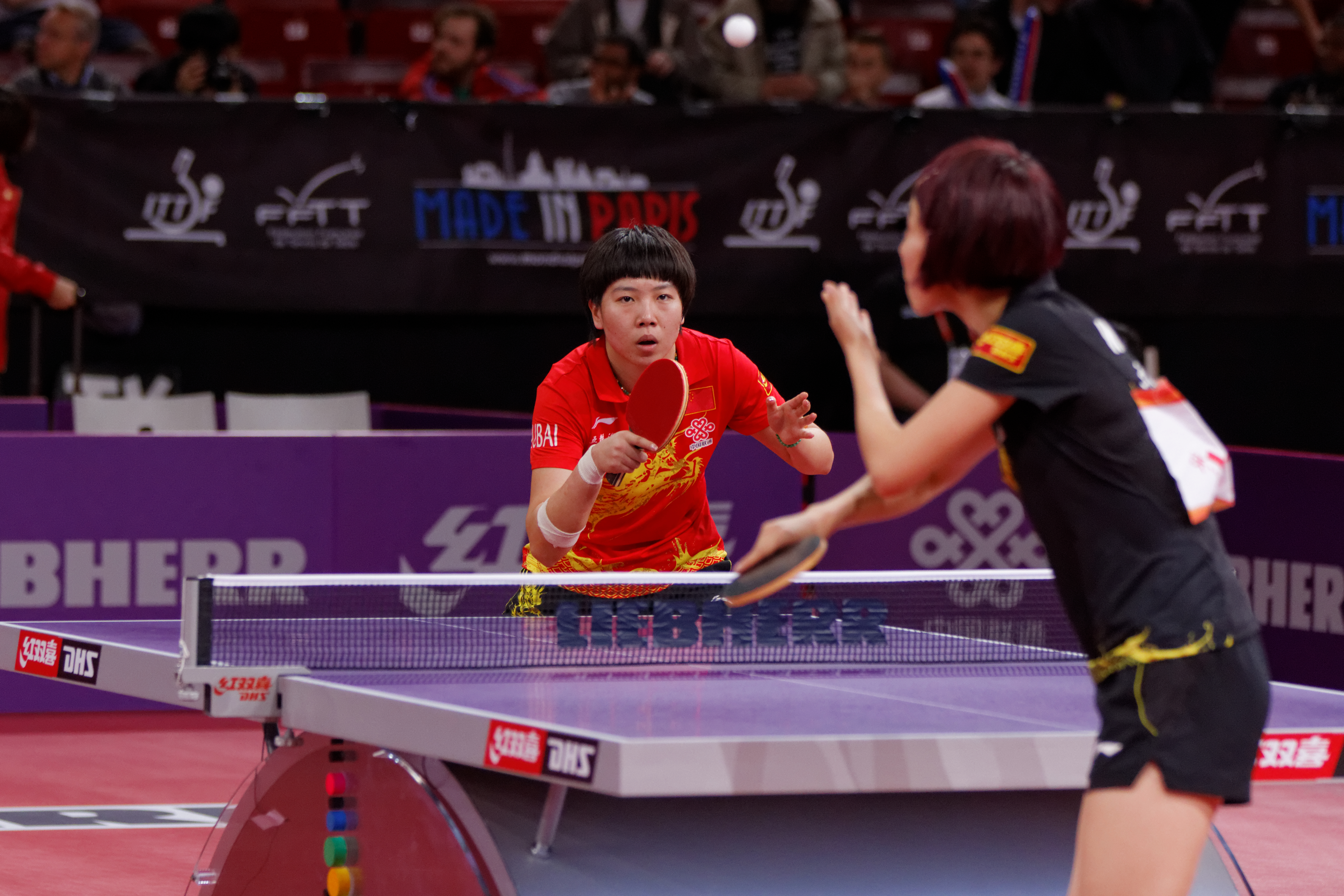 2013 World Table Tennis Championships, Paris. Women's Singles Quarterfinal.Wu Yang vs Li Xiaoxia.